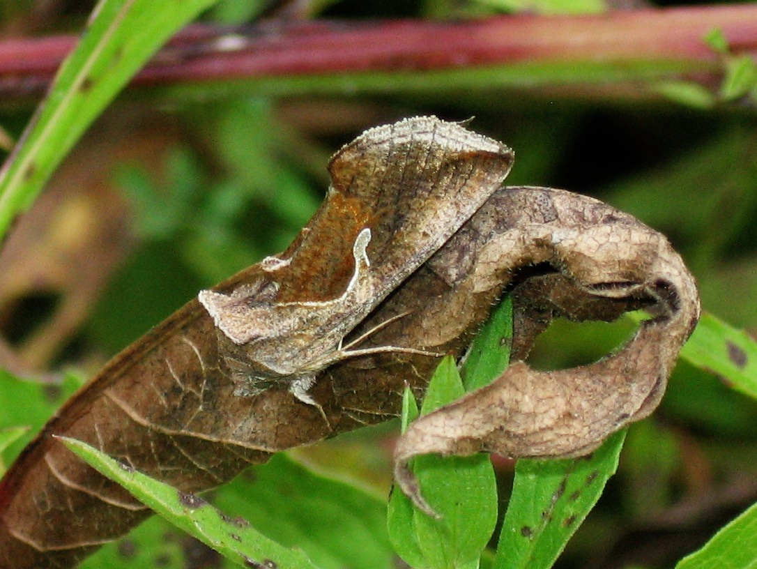 Celery Looper Moth (A. falcifera), Willowwood Arboretum. When it landed, I had trouble finding it because it just disappeared into the leaf.